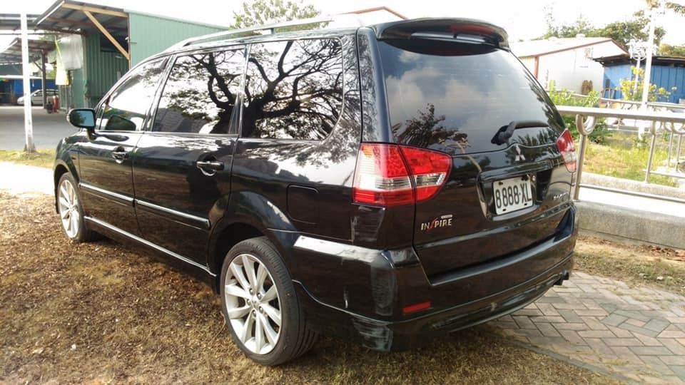 Second generation Mitsubishi Savrin Inspire rear